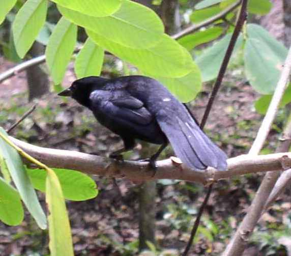 Melodious Blackbird (Dives dives) in Belize.